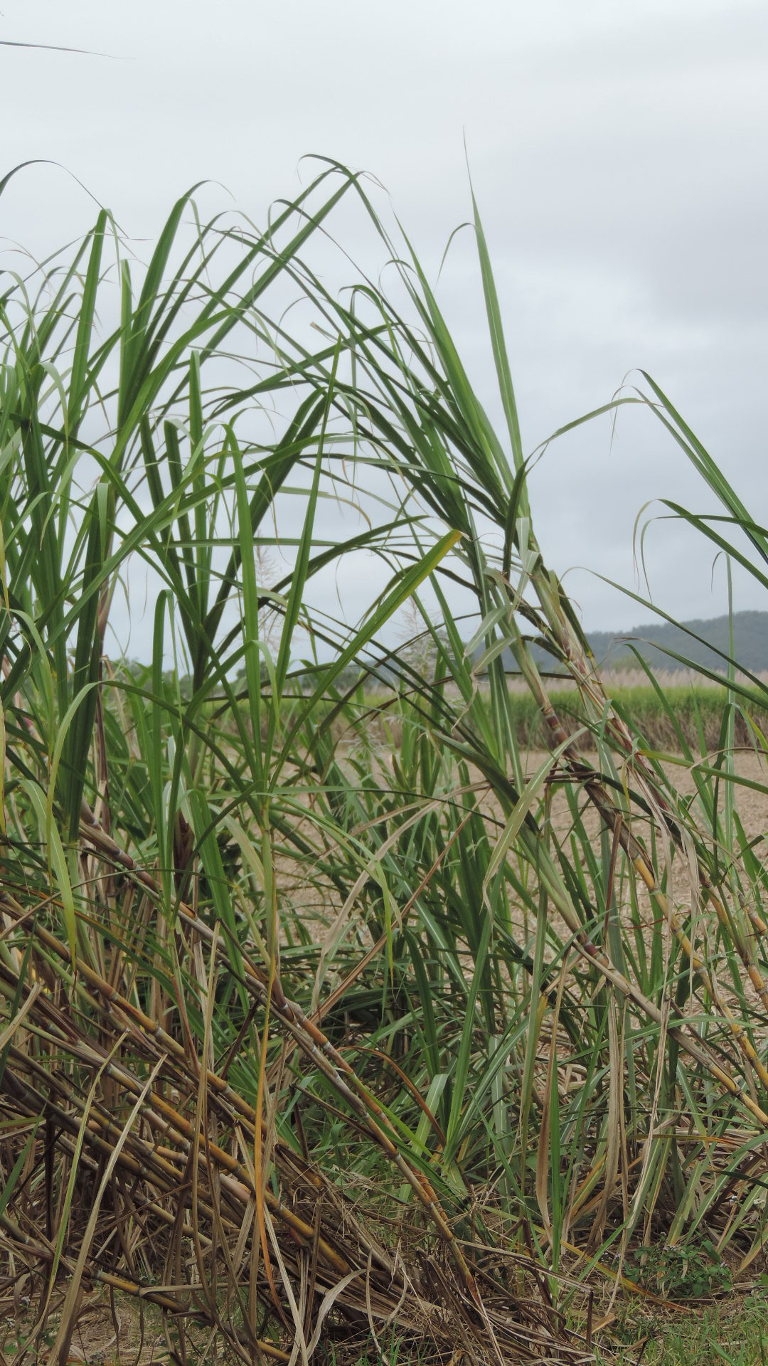 Sugar cane growing in Carmila, 2016